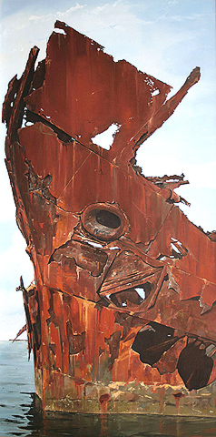 Das Vermächtnis. Öl auf Leinwand, 2009, 200 x 100 cm.